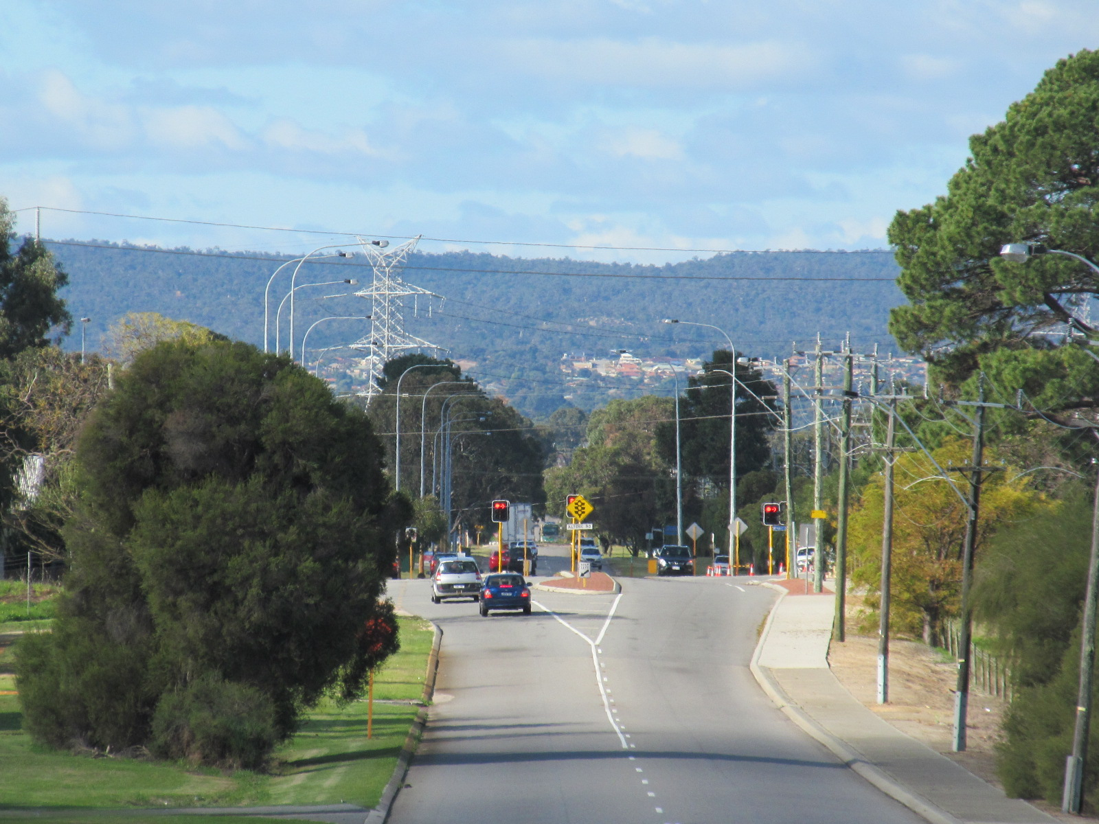 Benara Road looking east from Altone Park towards the Perth Hills.